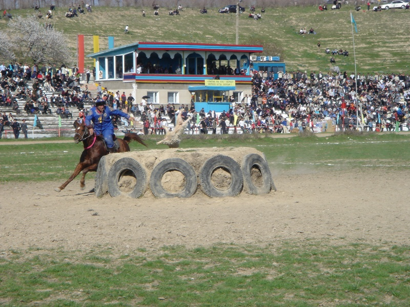 Kokpar.